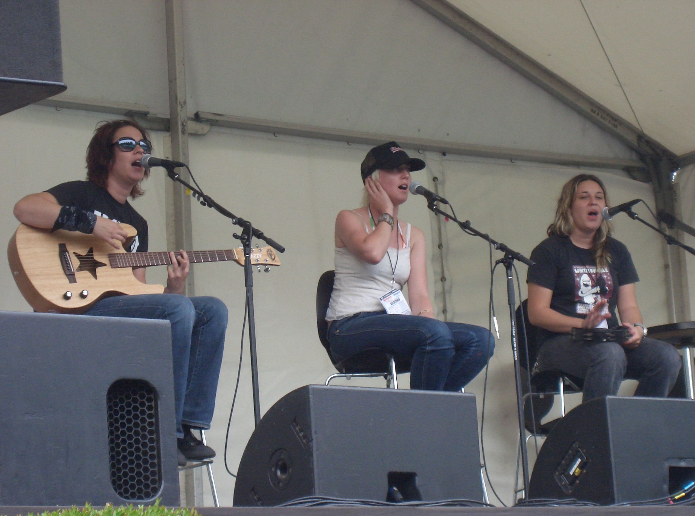 The Spazzys were one of the evening bands that performed for punters who'd had enough of tennis for the day, at the 2006 Australian Open.